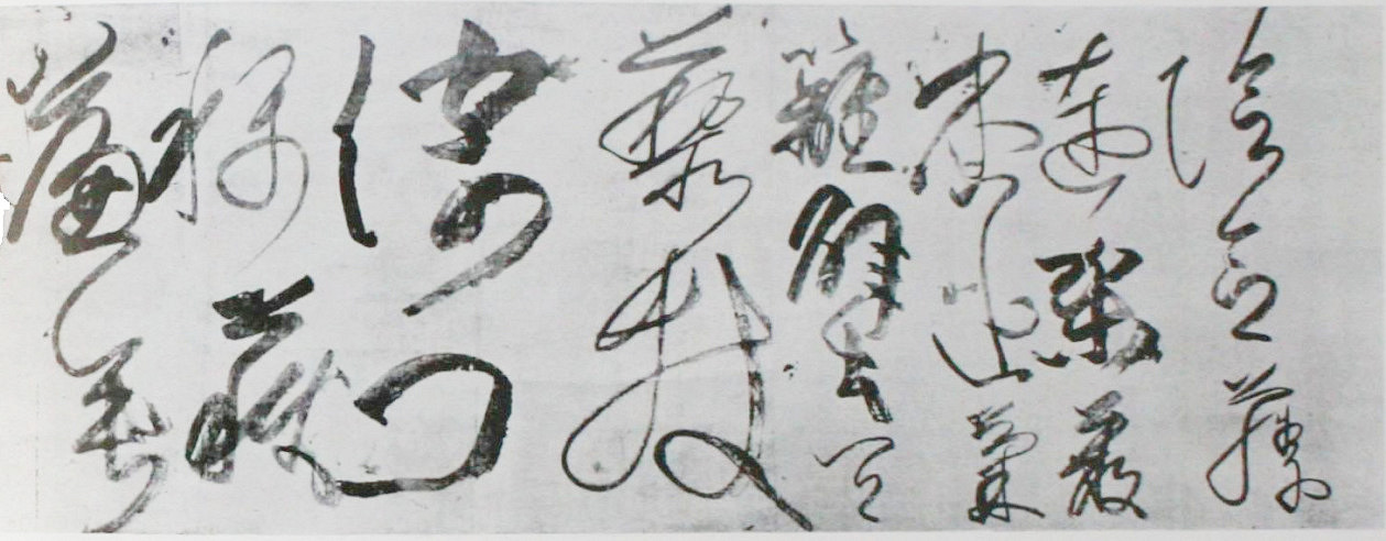 Former part of the Fragment of poem by Bai Juyi((772–846) Calligraphy by Emperor Daigo(attributed), 10th century, Ink on Paper, 30.5x190.4cm Emperor Fushimi attibute this calligraphy to Emperor Daigo in 13th cemtury, Imperial Collection